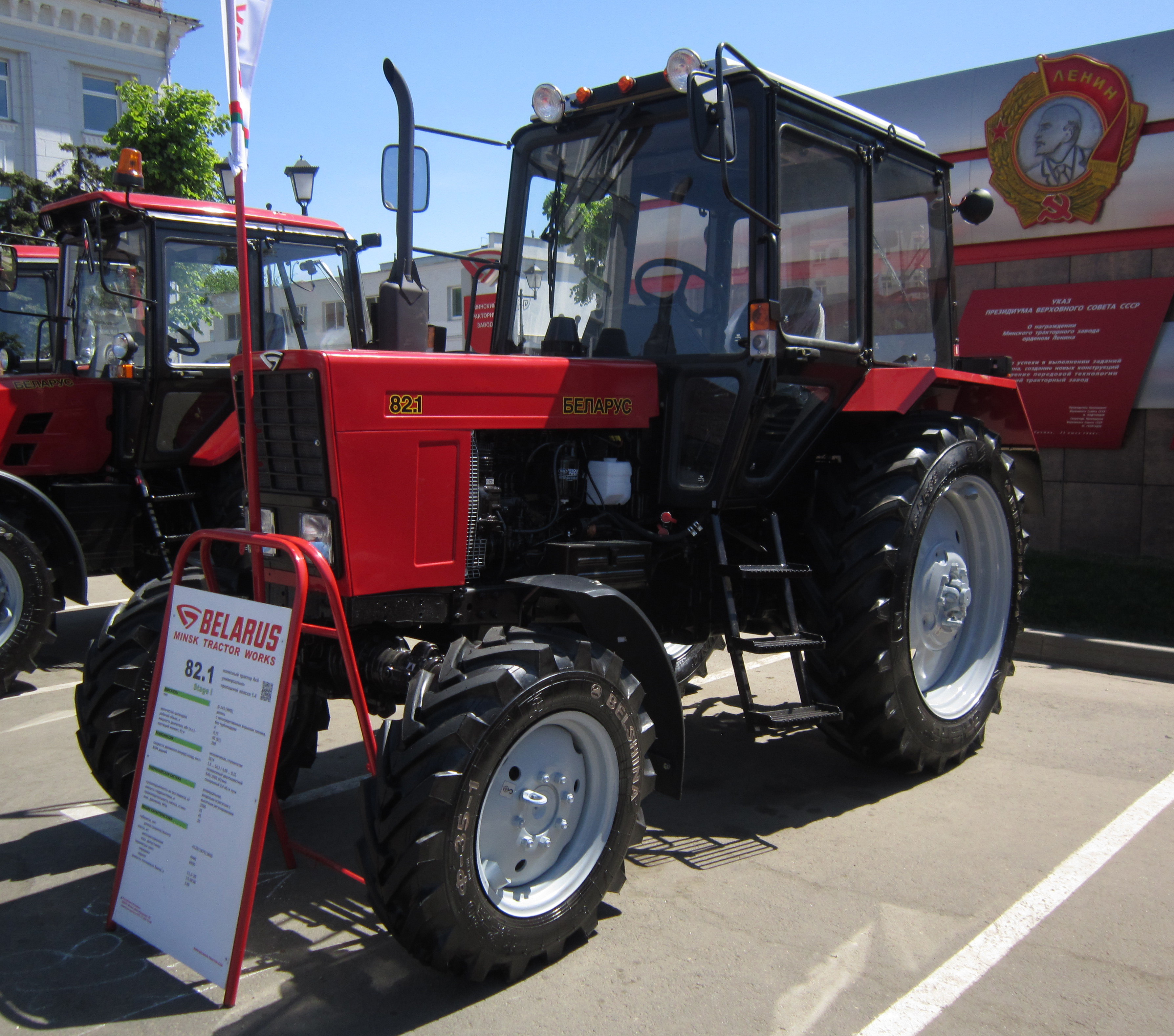 Minsk Tractor Works Open Day 2017. Tractor Belarus (MTZ) 82.1